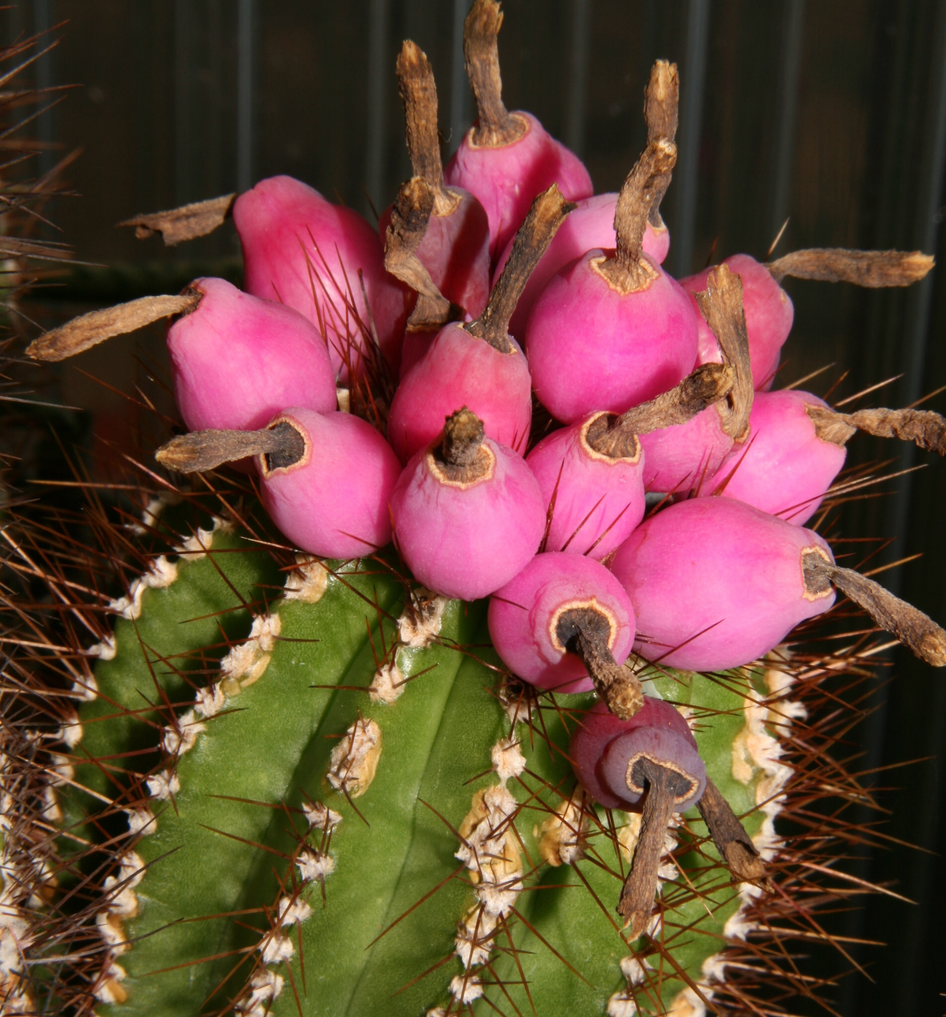 With fruits, plant from type locality, Chapada Diamantina, Bahia, Brasil